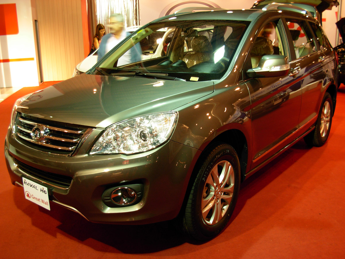 Great Wall Haval H6 at the 2012 Montevideo Motor Show.